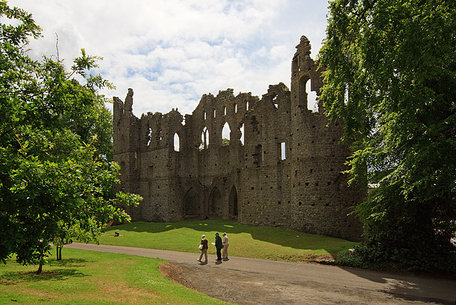 The Jealous Wall folly within Belvedere House and Gardens in Mullingar, Co. Westmeath, Ireland.